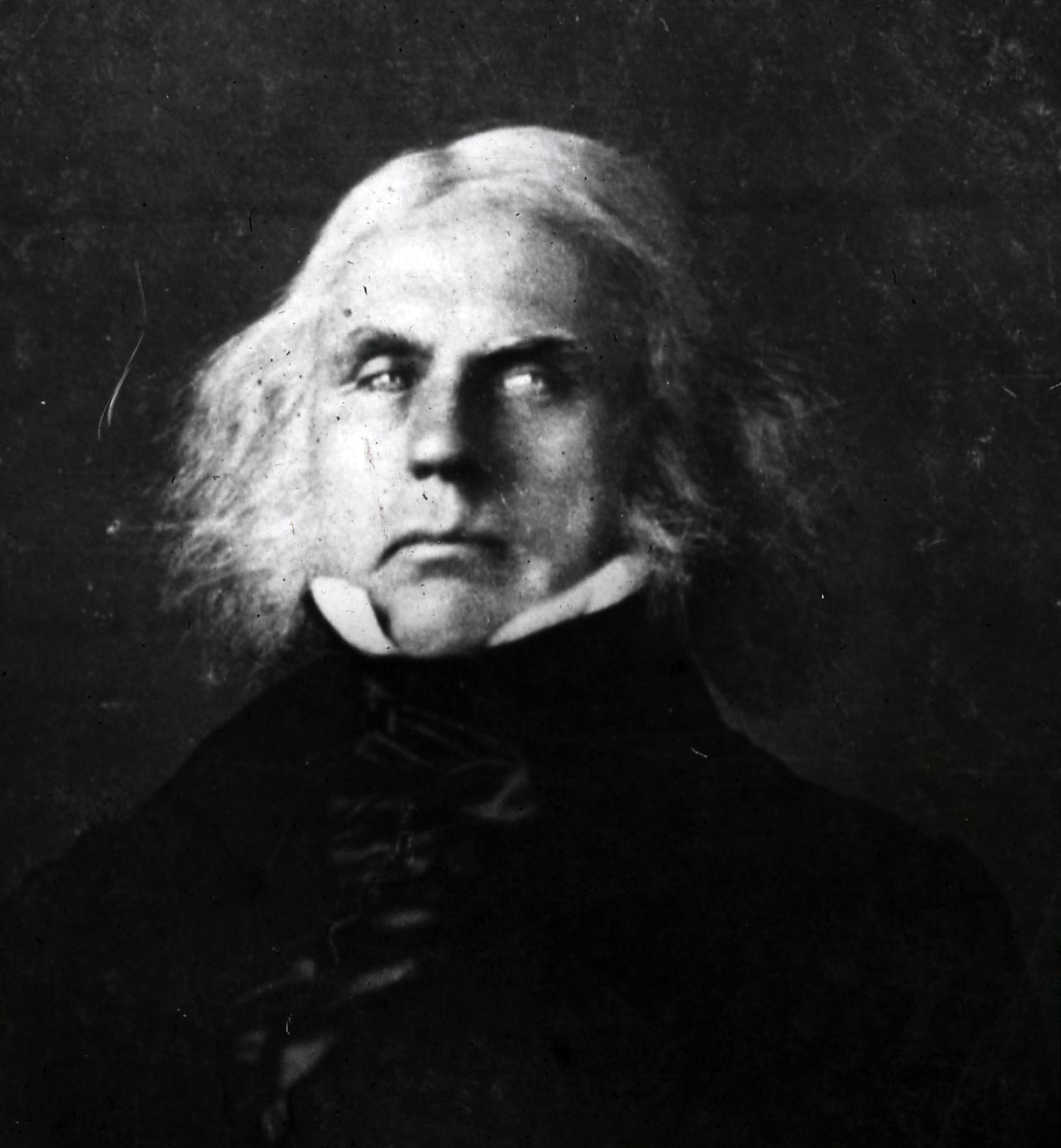 Description/Notes: Early settlement of Oregon Original Collection: Visual Instruction Department Lantern Slides Item Number: P217: set 38 no.24 You can find this image by searching for the item number by clicking here. Want more? You can find more digital resources online. We're happy for you to share this digital image within the spirit of The Commons; however, certain restrictions on high quality reproductions of the original physical version may apply. To read more about what “no known restrictions” means, please visit the Special Collections & Archives website, or contact staff at the OSU Special Collections & Archives Research Center for details.